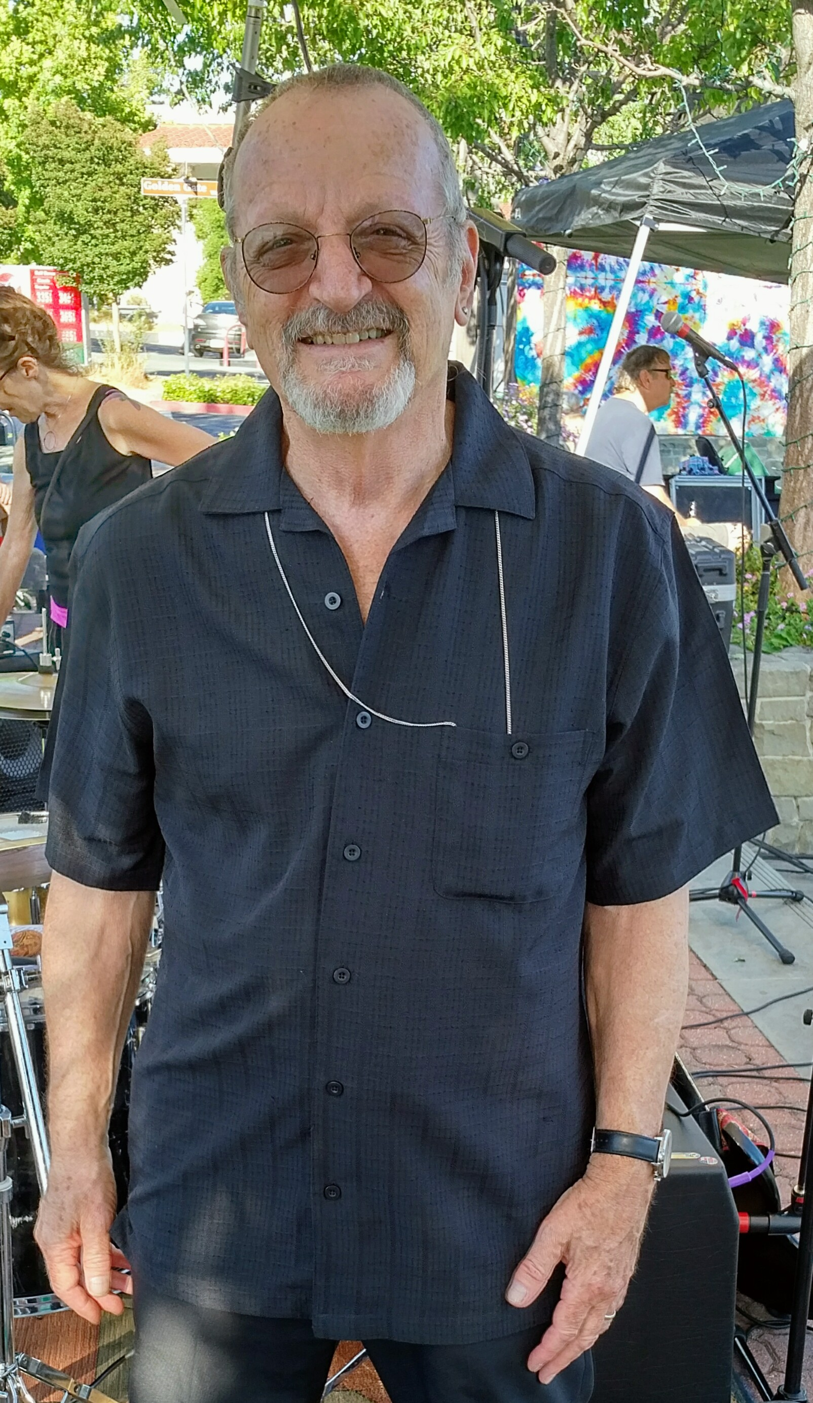 David Bennett Cohen at Rock the Plaza concert series: Summer of Love in Lafayette, California with the Barry "Fish" Melton Band. Friday June 23, 2017